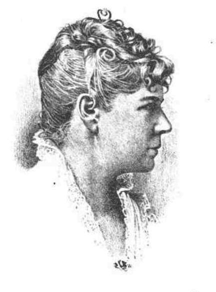 Portrait of Ina Coolbrith as appearing in 1918 poetry book.